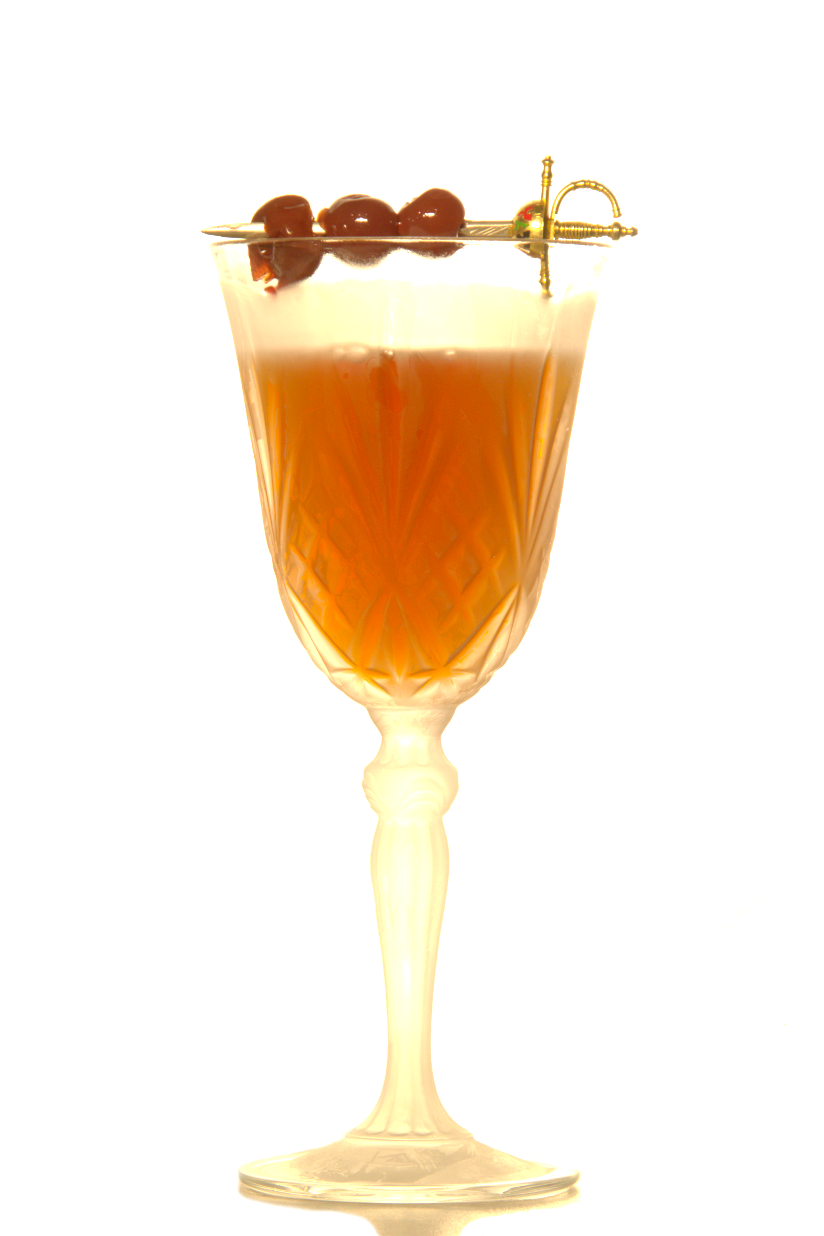 Manhattan (cocktail), garnished with brandied cherries.